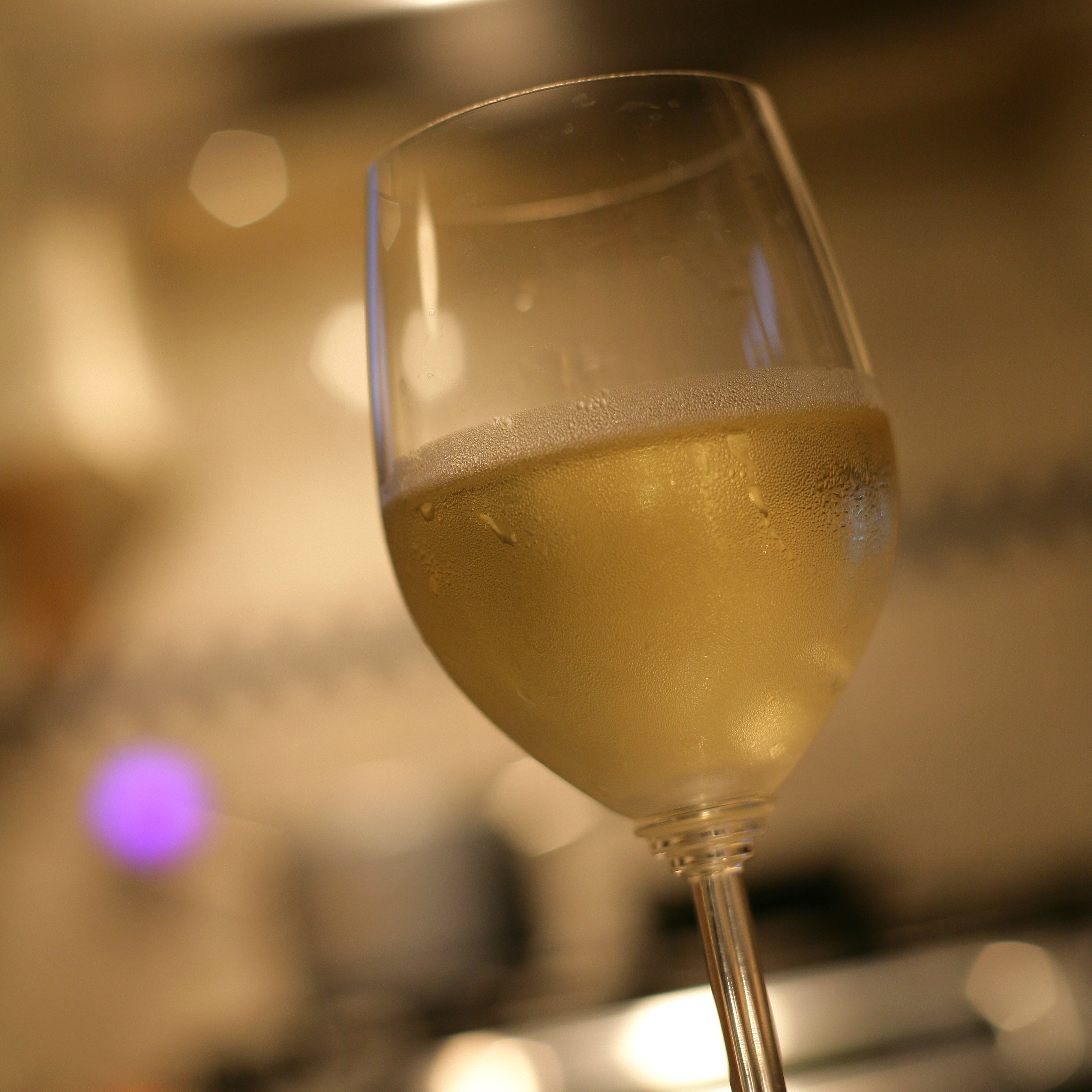 Cold French wine Chablis made from Chardonnay